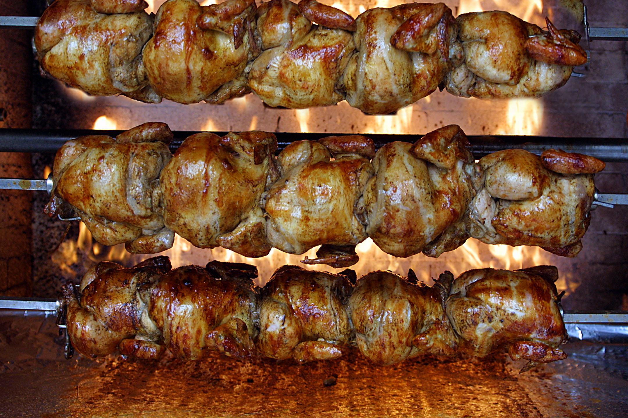 Chickens cooking on rotisserie at Chicks Natural restaurant